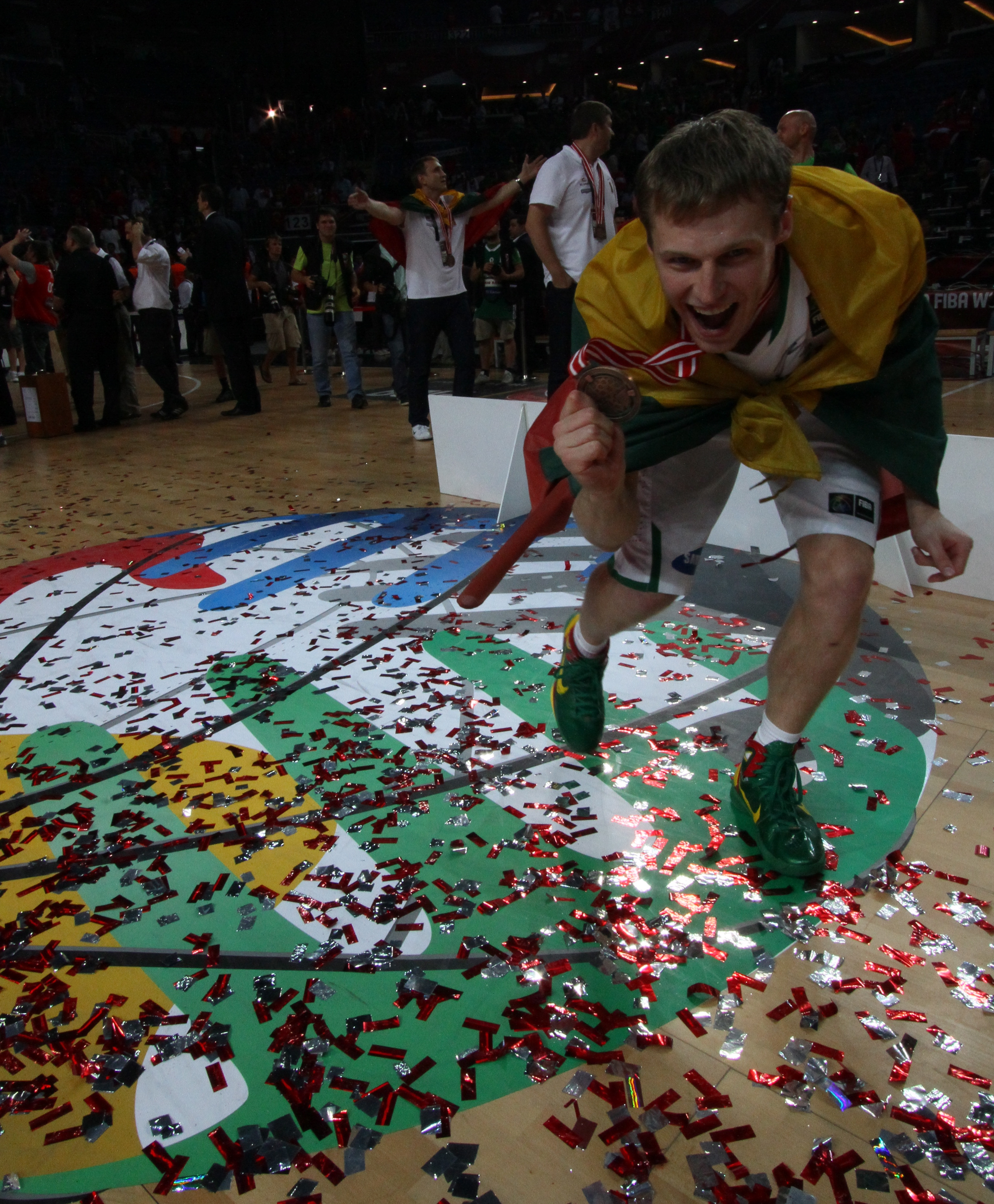 Martynas Pocius celebrates for winning bronze medal.